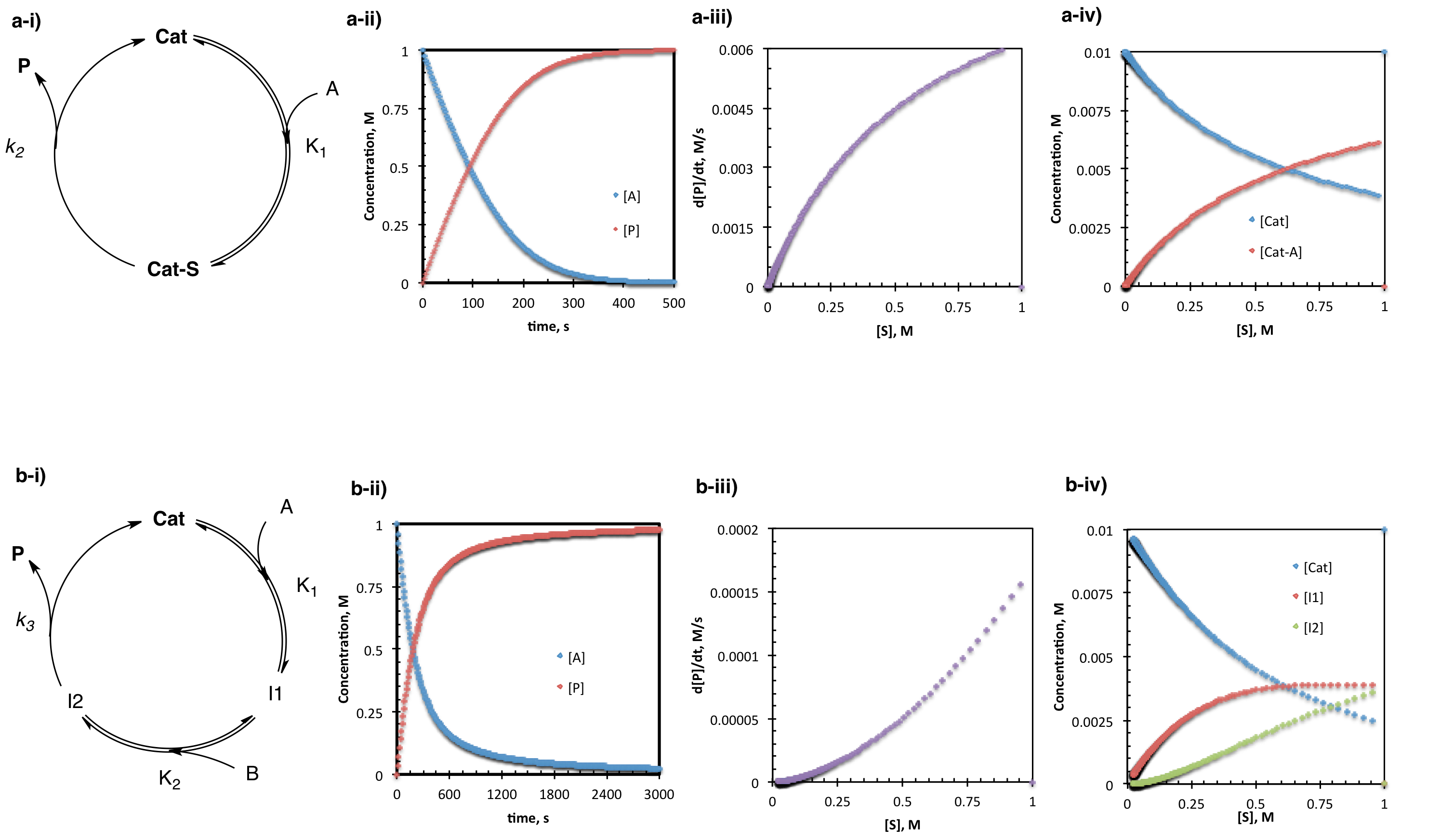 Two examples of catalytic kinetics displaying pre-equilibrium behavior. For each case, i) describes the catalytic cycle with relevant rate constants and concentrations, ii) displays the concentration of product and reactant over the course of the reaction, iii) describes the rate of the reaction as substrate is consumed from right to left, and iv) describes the catalyst resting state as substrate is consumed from right to left. The arbitrary rate constants used to describe these scenarios are as follows for a) K1=k1/k-1=50/30 and k2= 1 (1/s) and b) K1=k1/k-1=50/30, K2=k2/k-2=40/20, and k3=1 (1/s). The data used to generate these plots were obtained by kinetic simulations with CopasiIU free software.